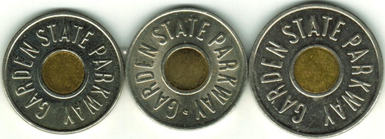 Garden State Parkway token, invalidated January 1, 2009.